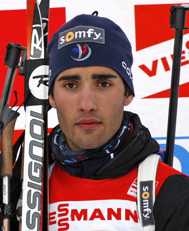 Martin Fourcade, E.ON RUHRGAS IBU WORLD CUP - Kontiolahti (FIN)